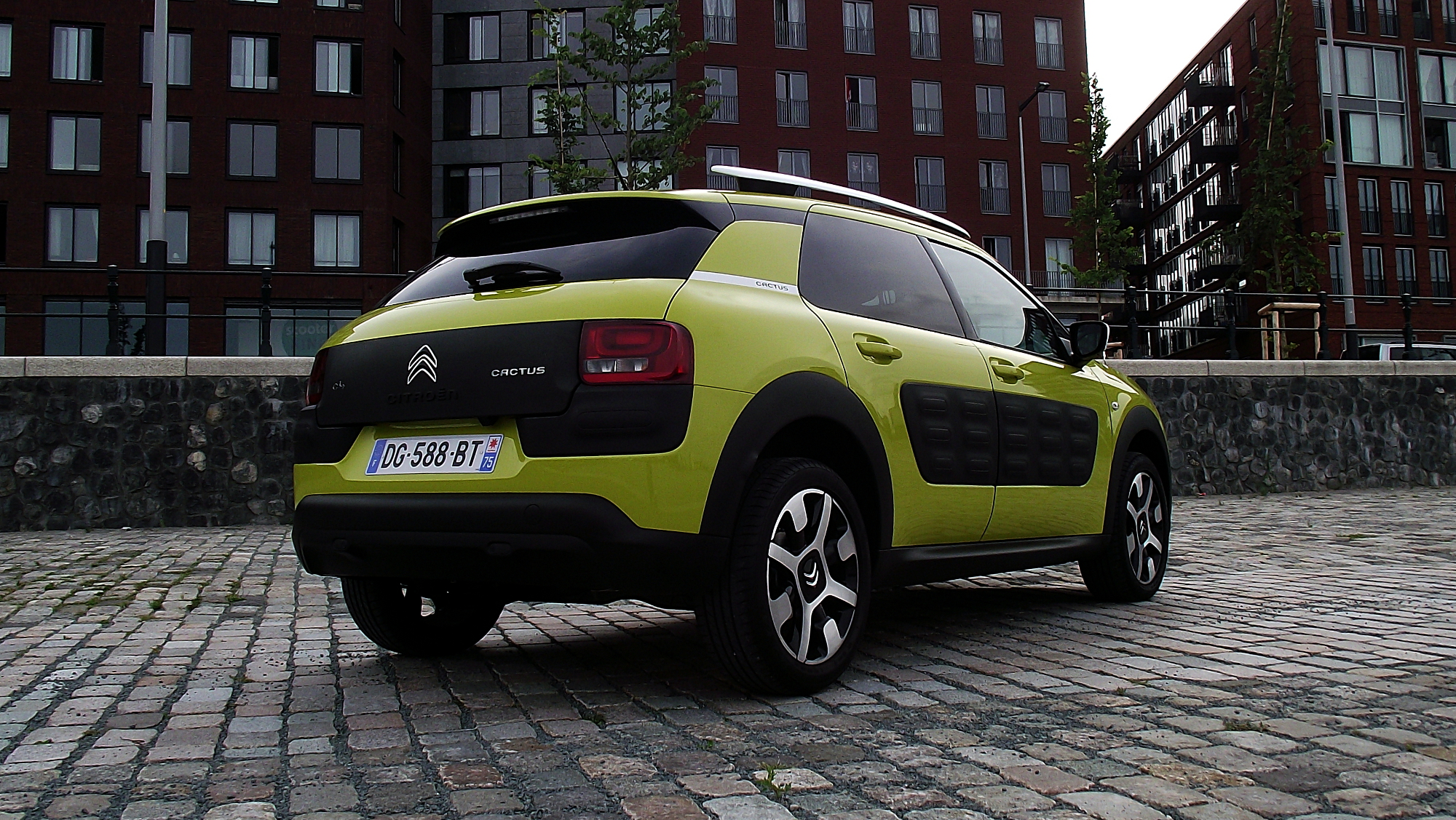 2014 Citroën C4 Cactus Feel Edition PureTech e-THP 110 Hello Yellow Rear View